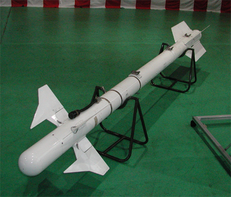 AAM-3 (Type 90 Air-to-air missile), displayed at Japan Air Self-Defense Force Hamamatsu AB